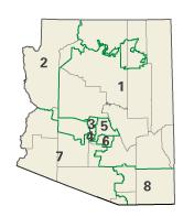 Image adapted from US fed gov't source Category:Congressional districts of Arizona